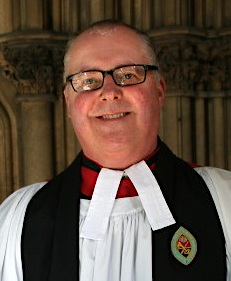 The Very Reverend Dr Paul Shackerley Dean of Brecon September 2013